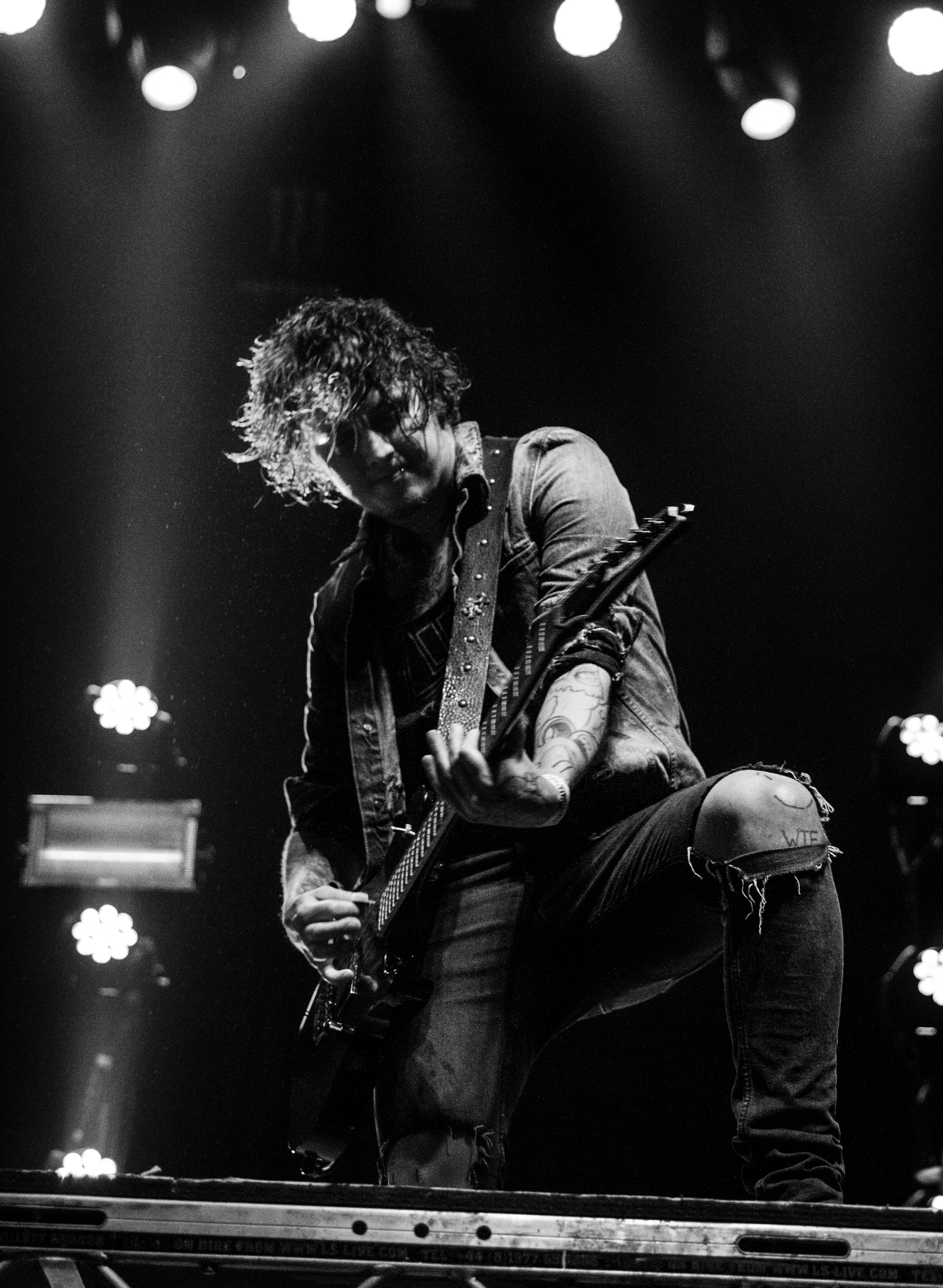 Asking Alexandria - Rock am Ring 2015